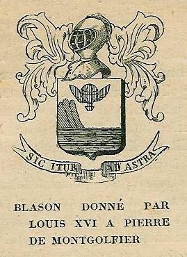 Coat of arms of the family de Montgolfier. Anonymous old grave. Published in "Les contemporains", number 539, Paris, february 8, 1903.